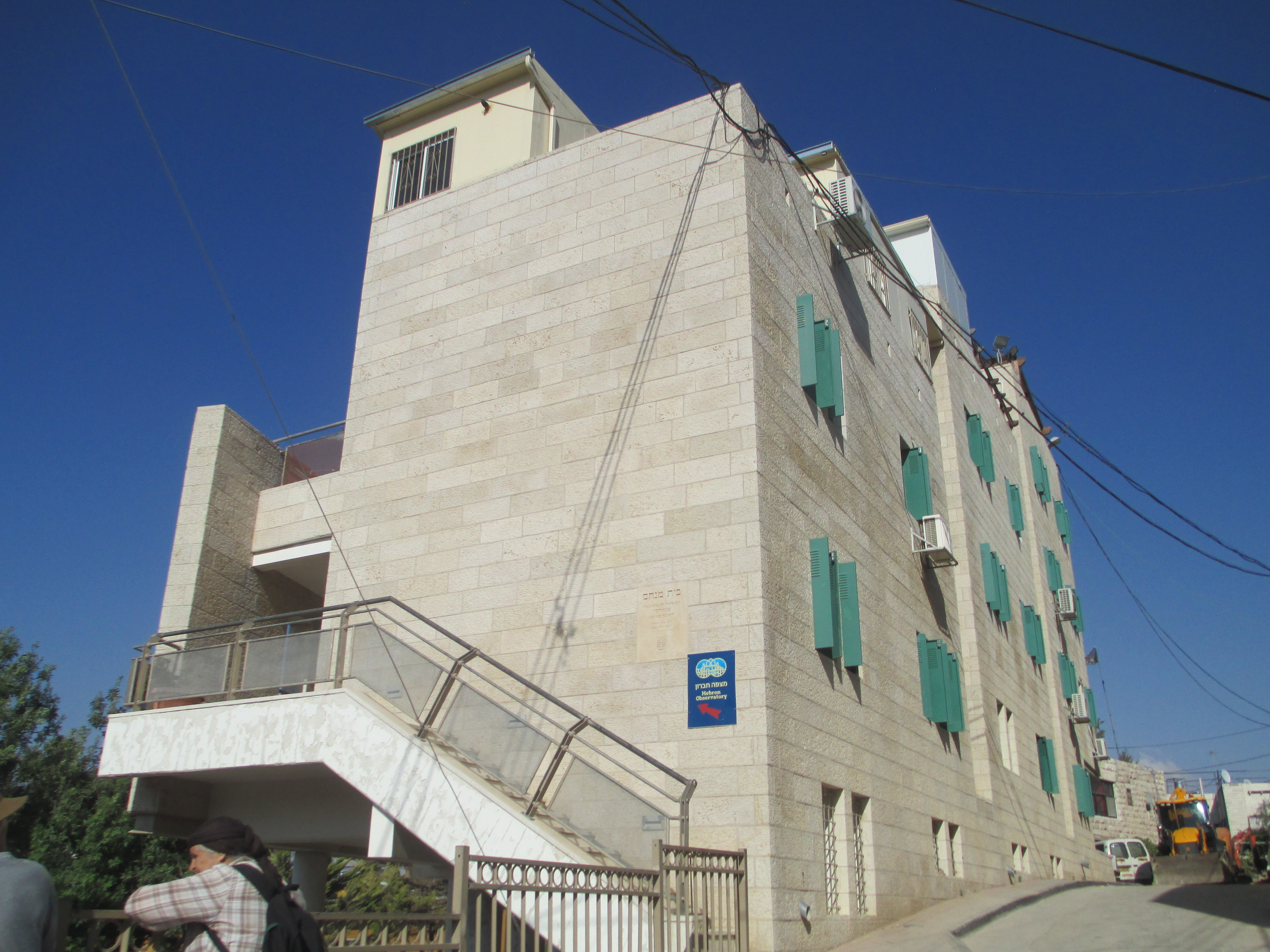 Tel Rumeida in Hebron